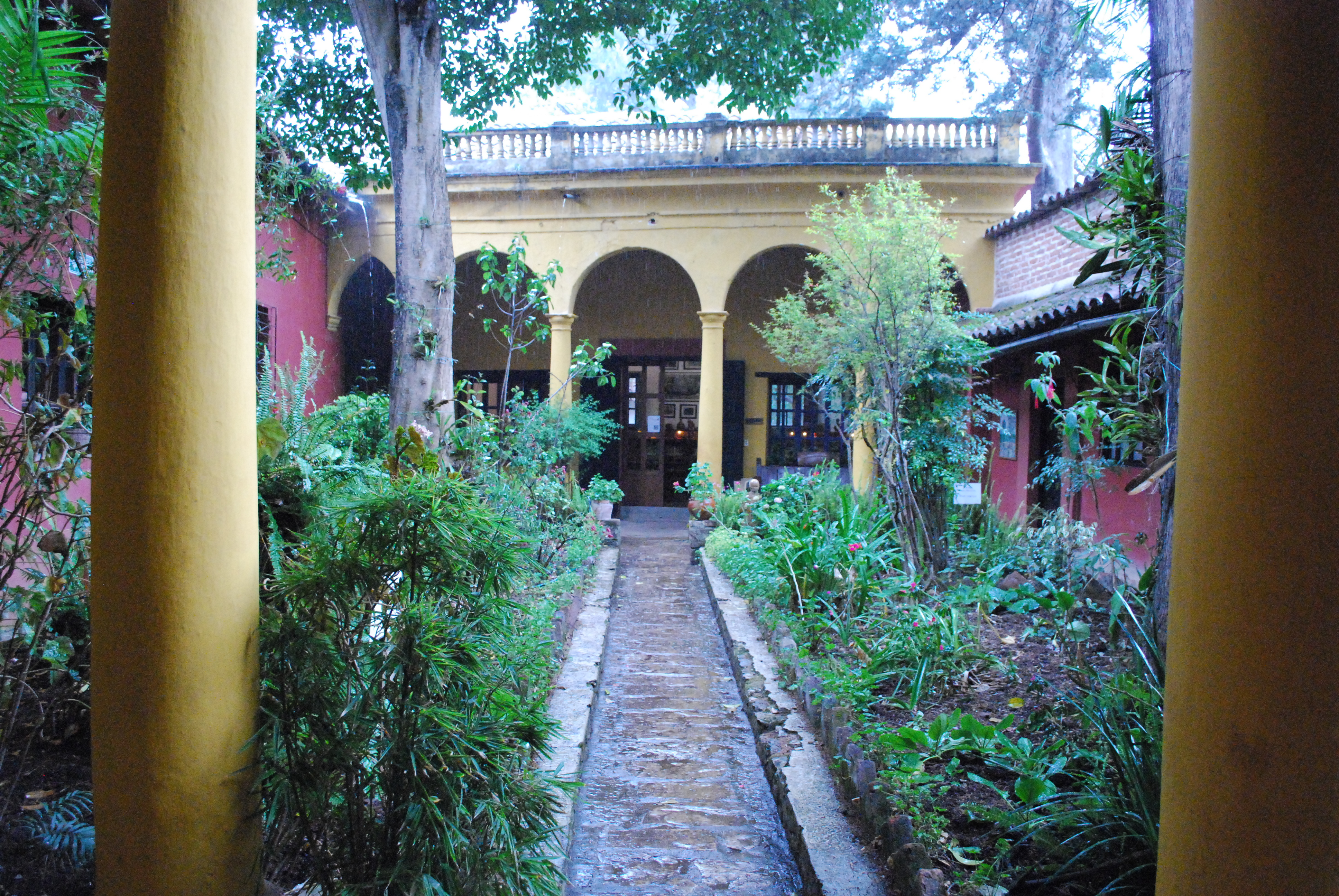 Garden at Casa Na Bolom in San Cristobal de las Casas, Chiapas, Mexico